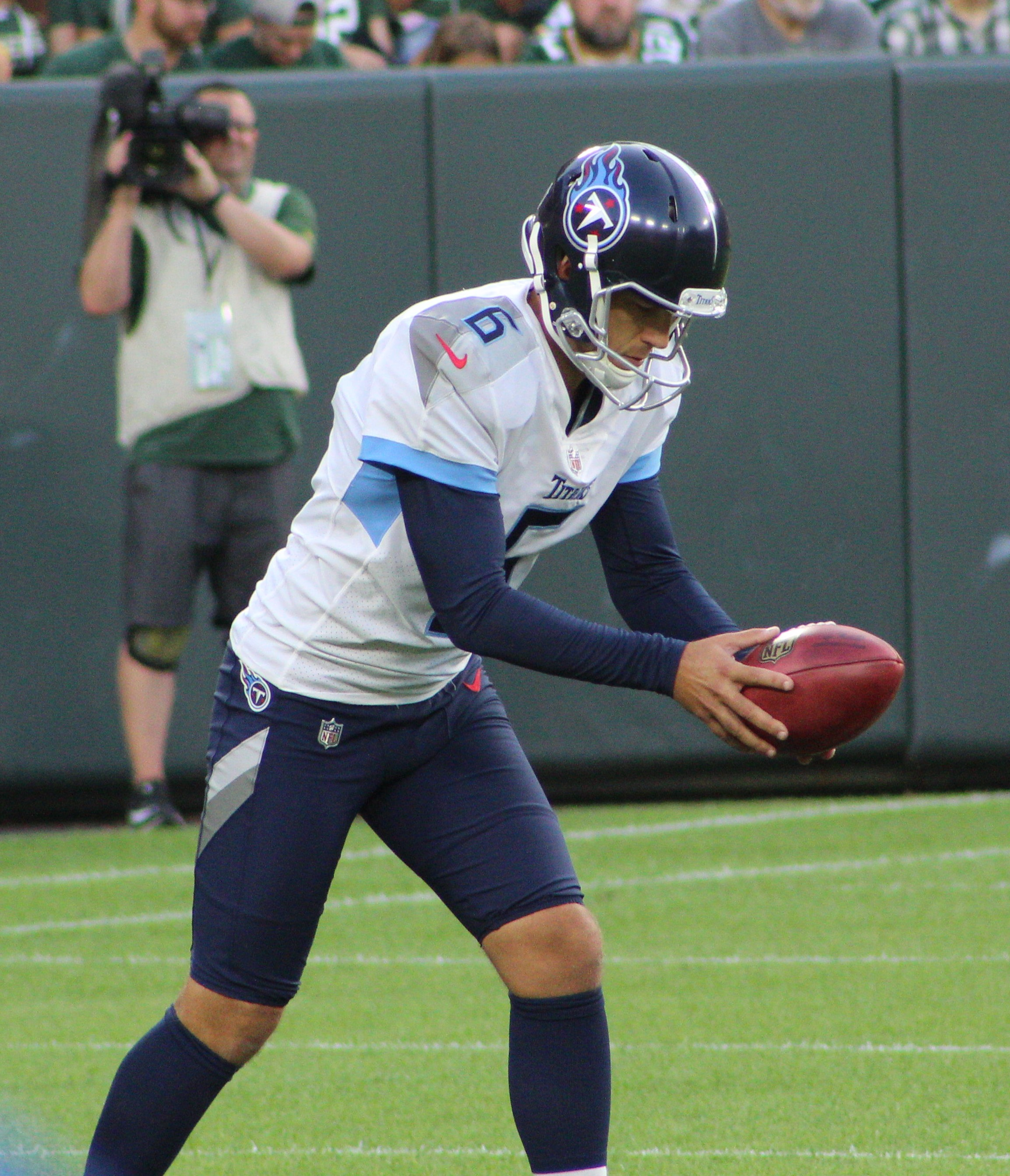 Brett Kern, Tennessee Titans at Green Bay Packers (Preseason), August 9, 2018